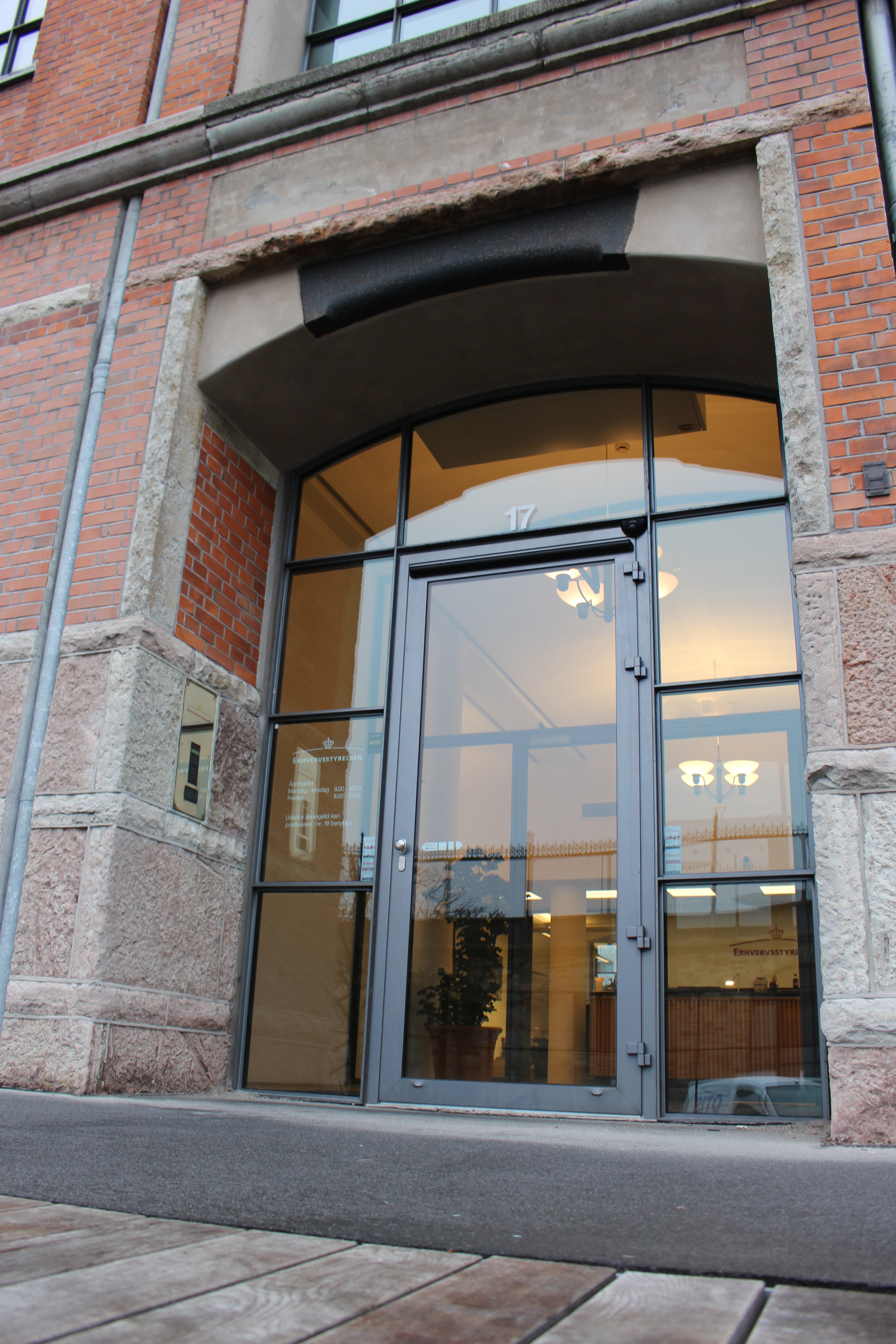 Entrance to the Danish Business Authority at Langelinie Allé 17.